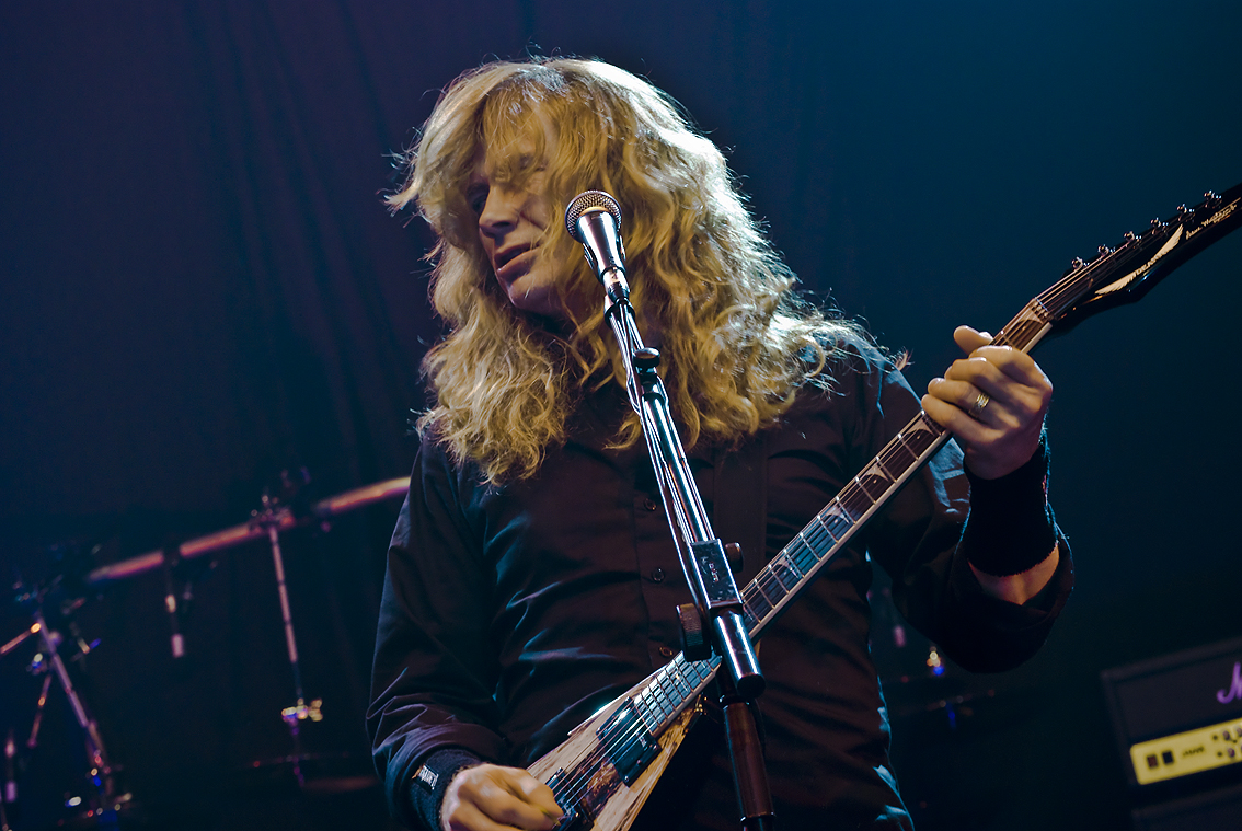 Dave Mustaine (Megadeth) during priest feast, palasharp, milano